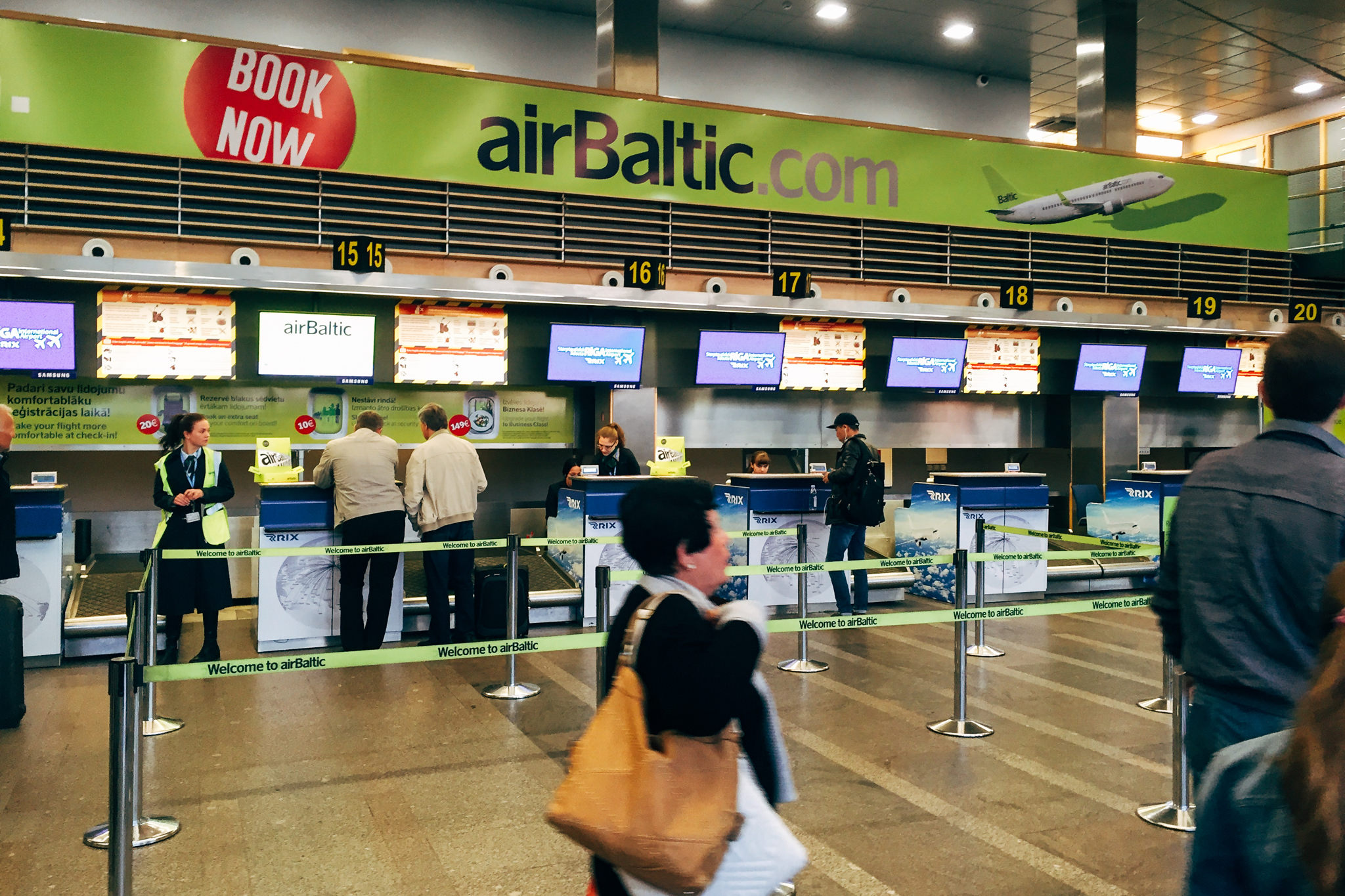 Check-In counter at Riga International Airport